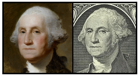 Comparison between Athenaeum Portrait and United States one-dollar bill. Note that the image on the dollar bill in this comparison flips the image horizontally.